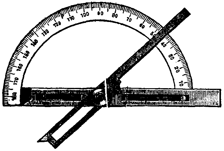 Technical illustration of a contact goniometer.